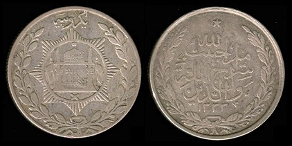 1 rupee